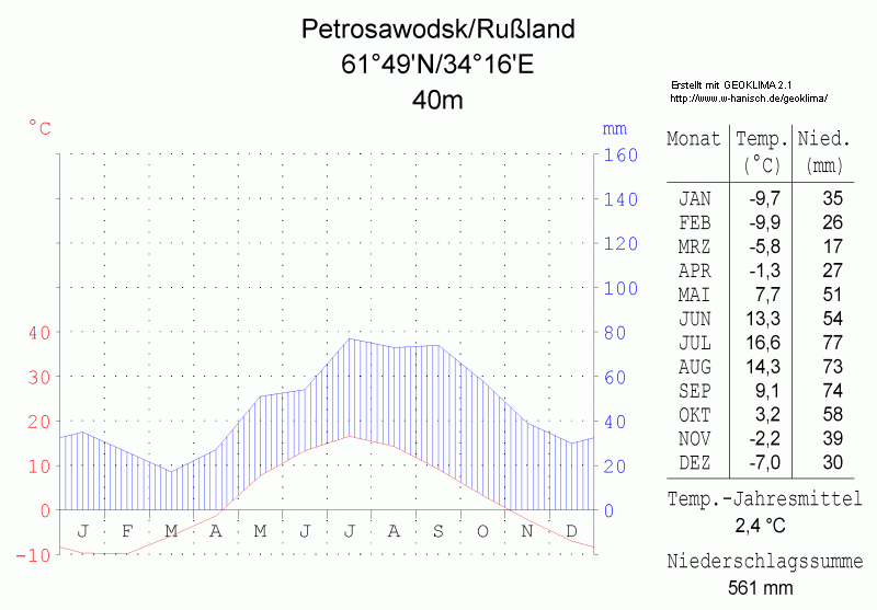 climate chart in the format by Walther and Lieth, metric, °Celsisus and millimeters, made with Geoklima 2.1